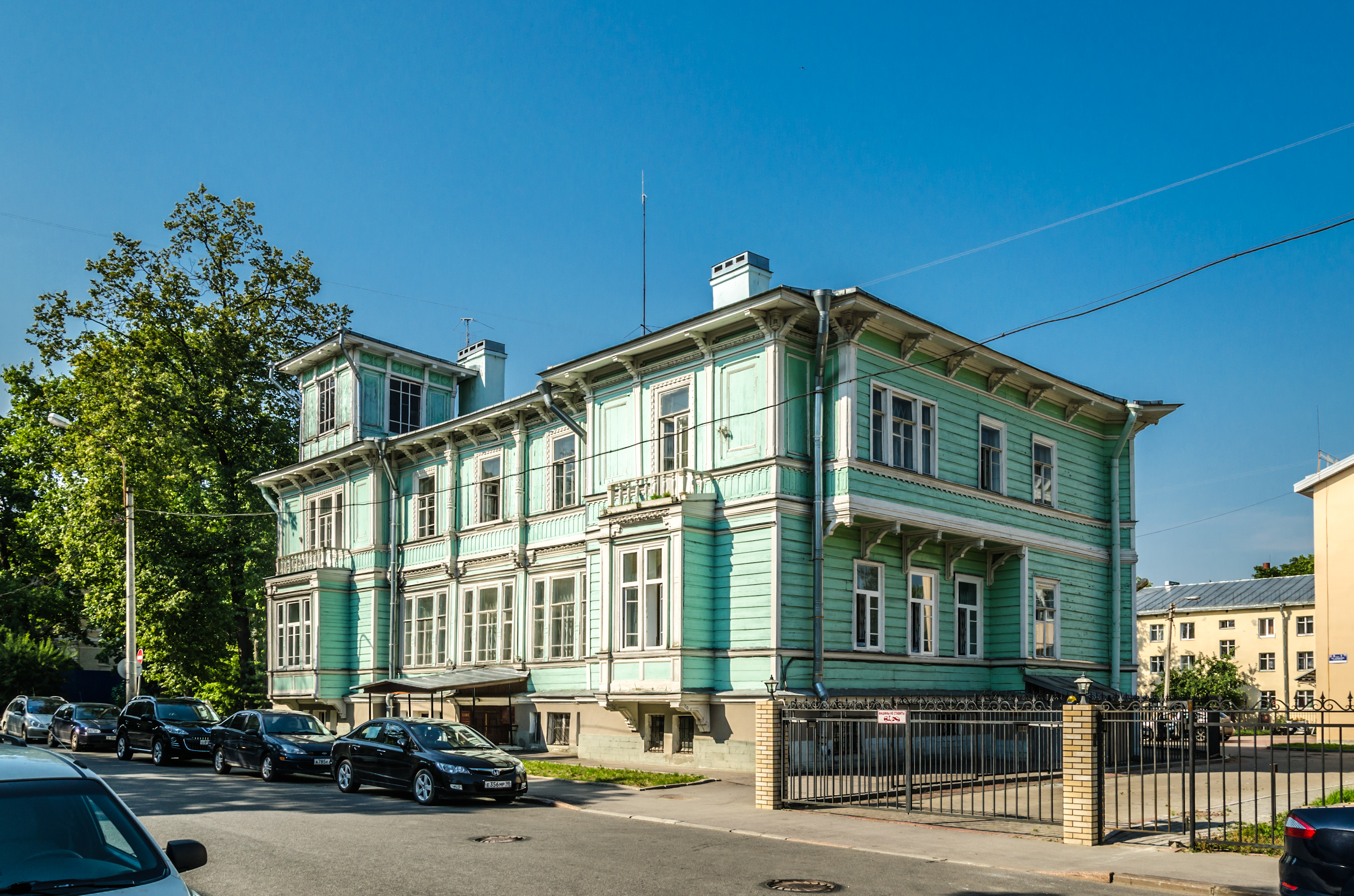 Patkul house in Tsarskoe Selo. Saint Petersburg